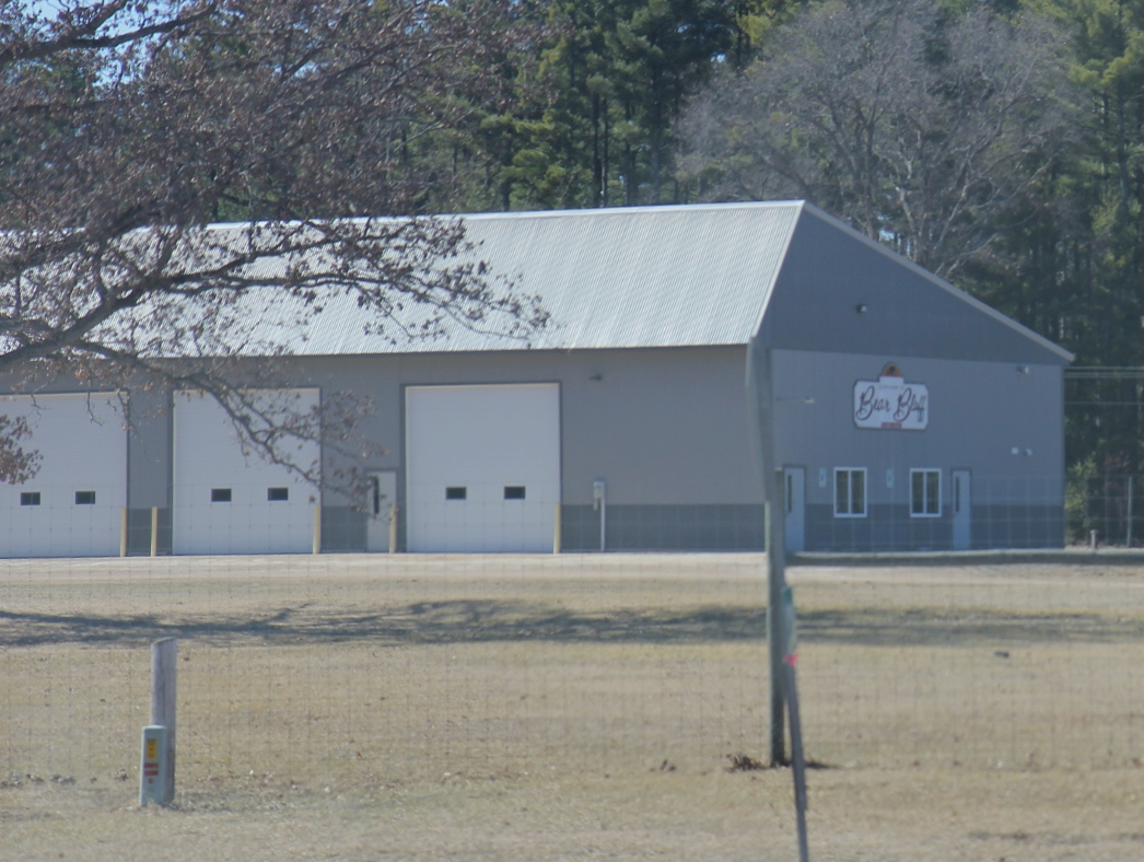 The town hall for the town of Bear Bluff, Wisconsin.